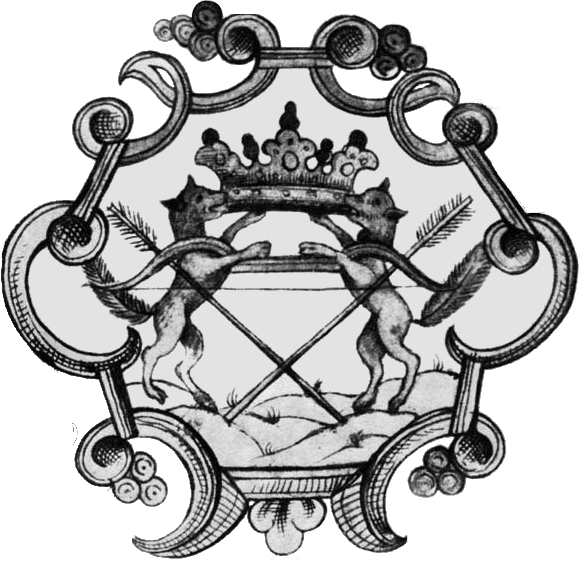 Historical coat of arms of Siberia.